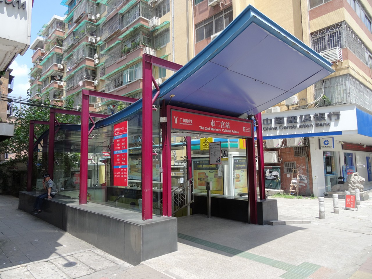 市二宫站E出入口